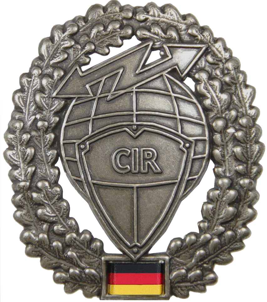 Internal coat of arms of the Bundeswehr (Armed Forces of the Federal Republic of Germany). → Remarks on naming and categorization scheme